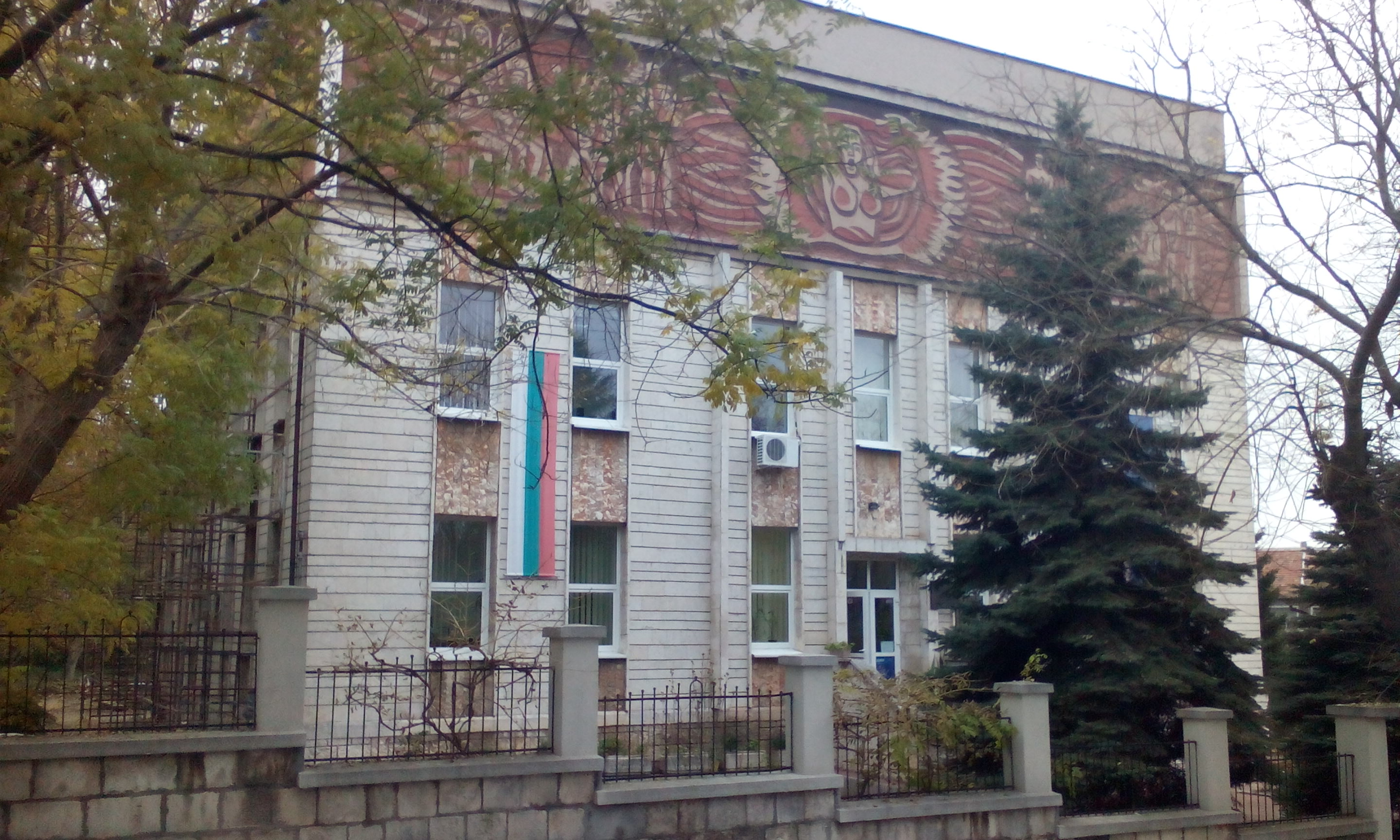 Radio Shumen Building